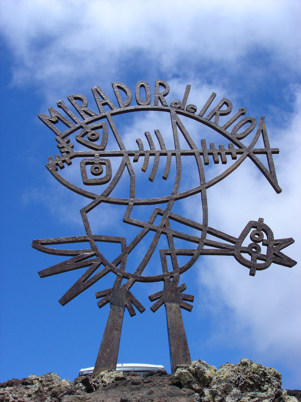 art work: logo of Mirador del Rio/Lanzarote in August 2005